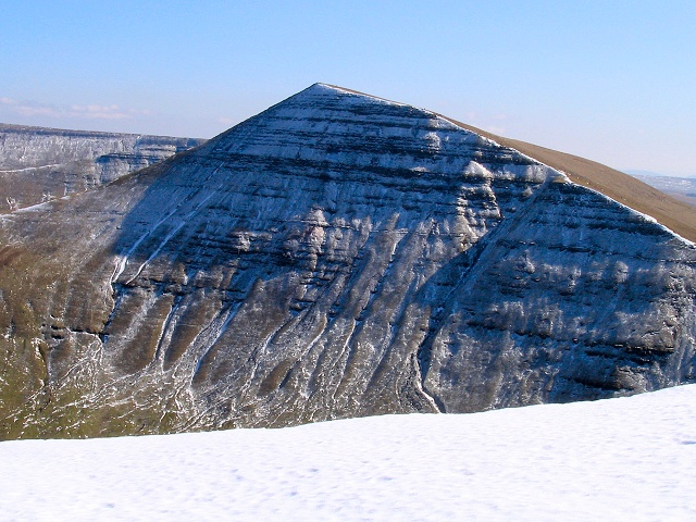 Cribyn seen from Cefn Cwm Llwch. This is the northwest face of Cribyn as seen when approaching Pen Y Fan from the north.